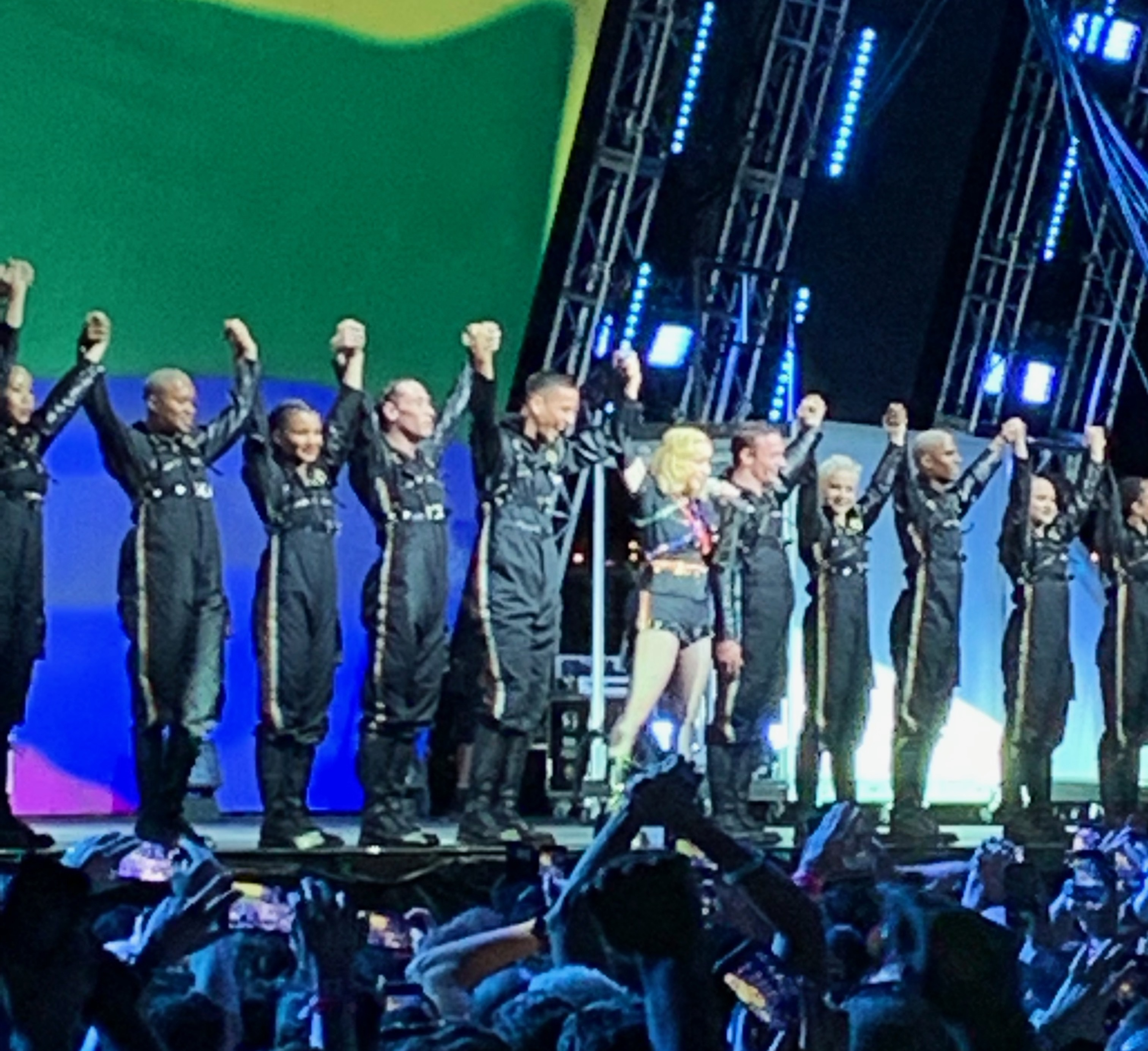 Madonna performing at the Stonewall 50 – WorldPride NYC 2019